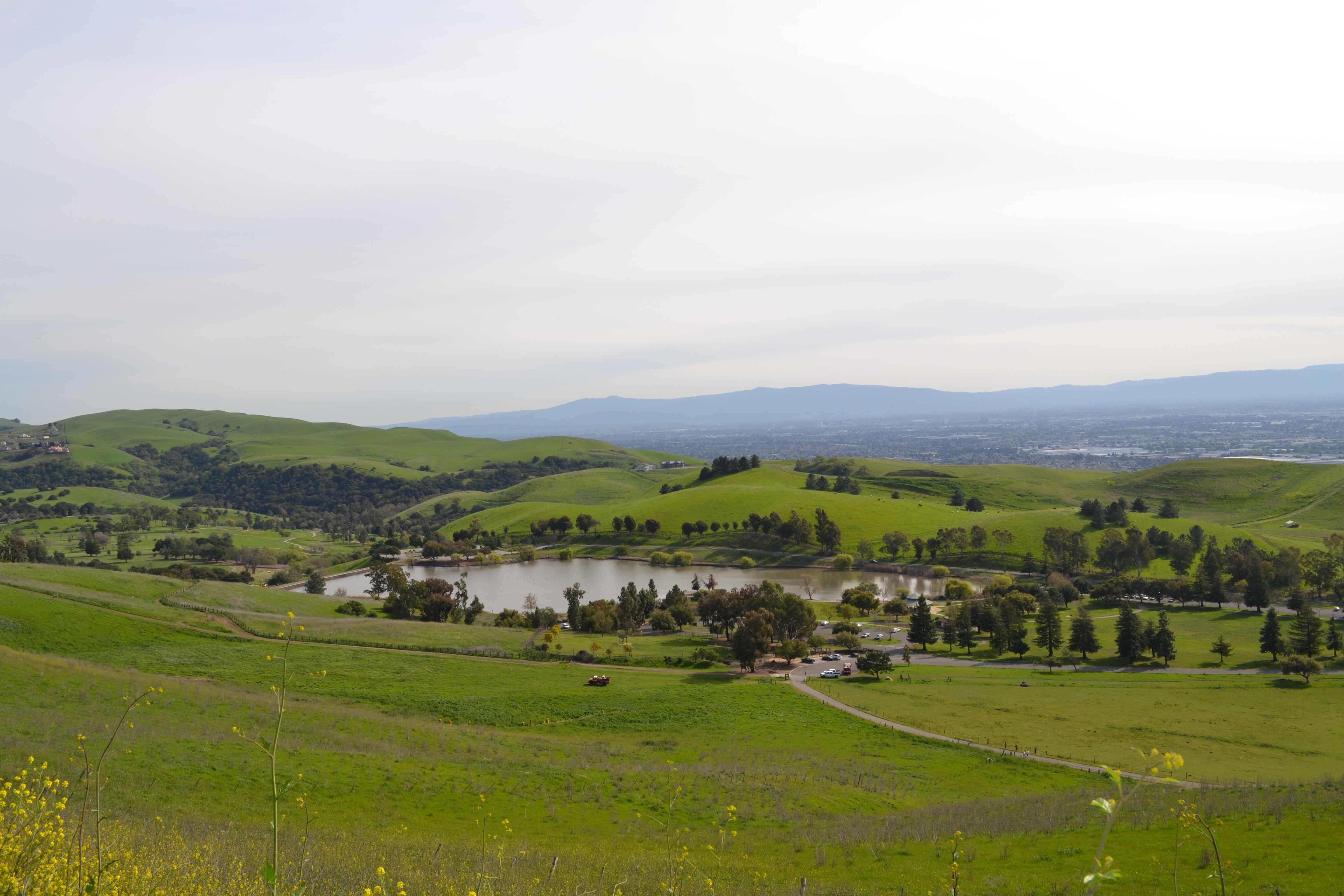 Sandy Wool Lake in Ed R. Levin Country Park